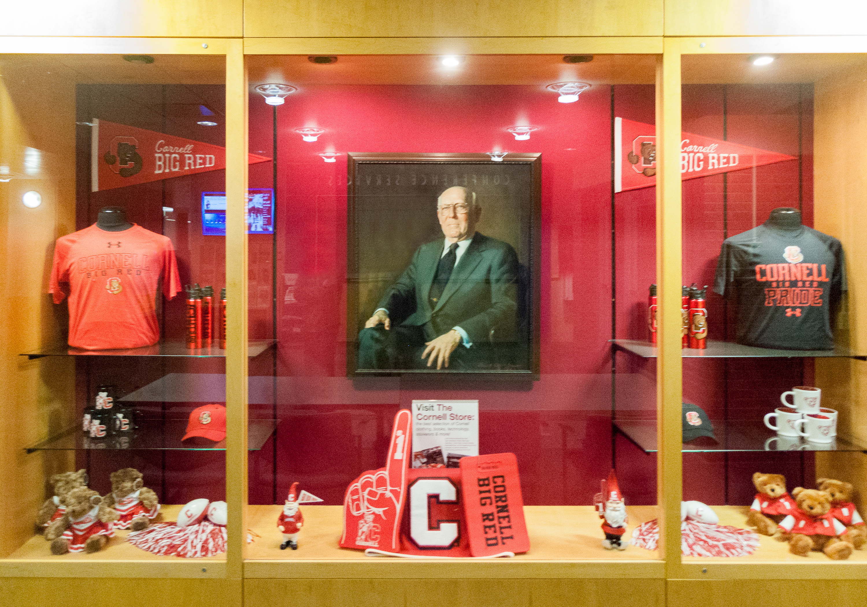 A painting of trustee Robert Purcell is on display along with other Cornell memorabilia, inside the building that bears his name.